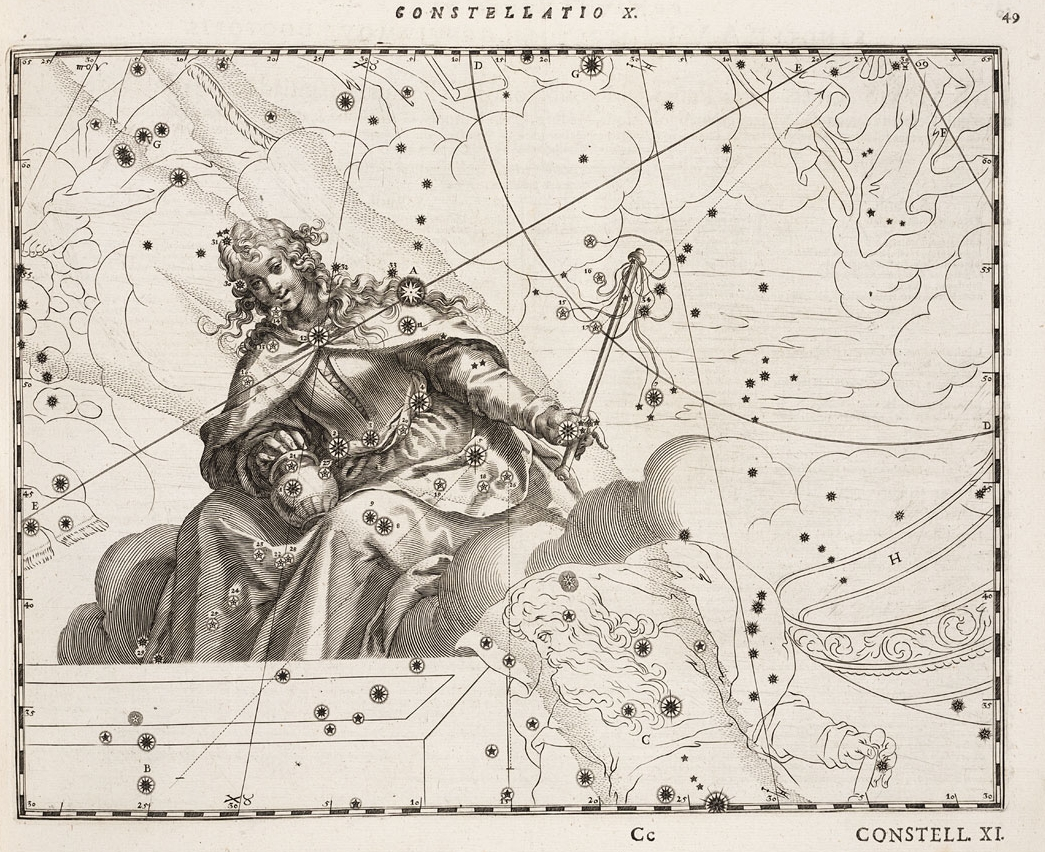 Image 11: Mary Magdalene